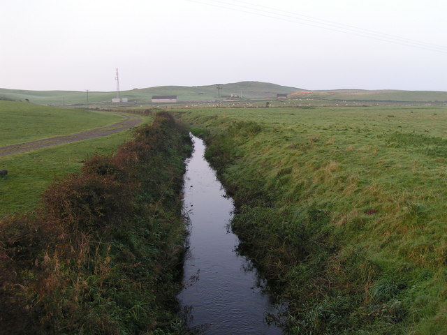 Pow Beck, St. Bees Looking southwest from the road bridge at NX968118, towards the golf course and adjoining mast, early morning.